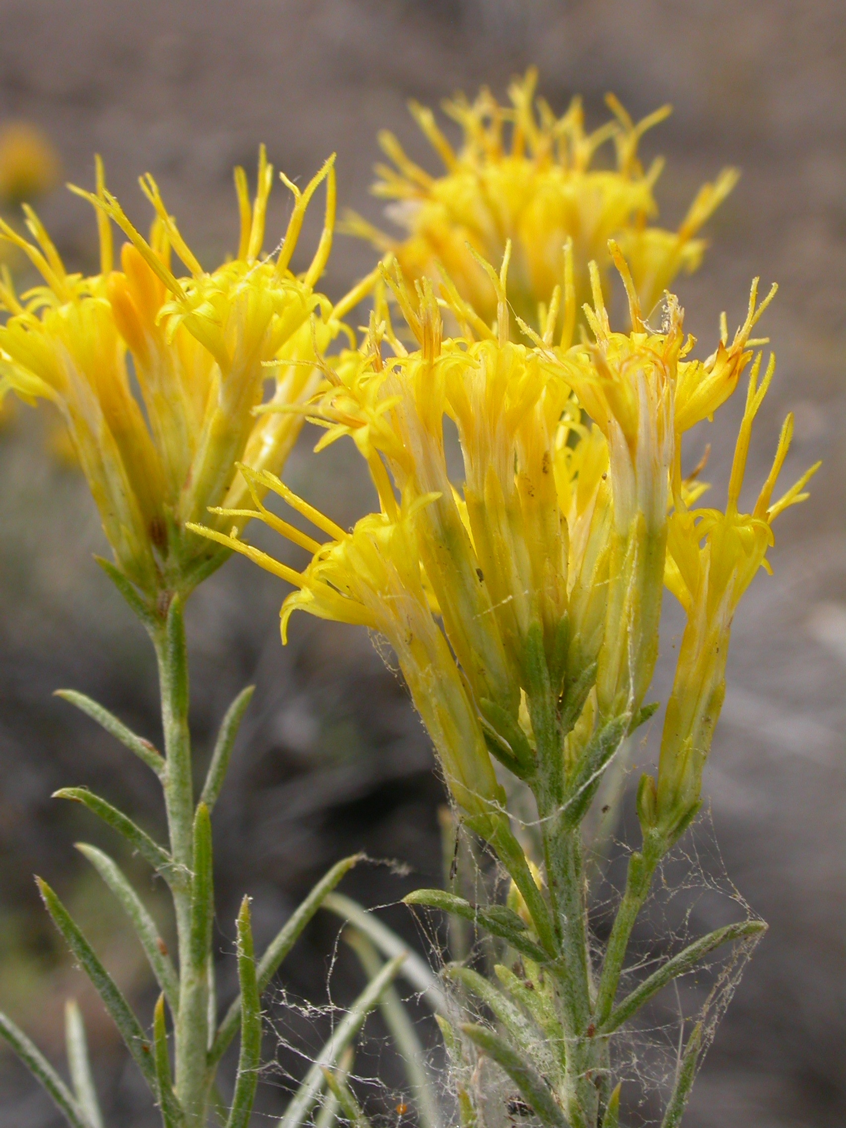 This form has narrowly linear gray-green leaves and in this area mostly inhabits the sagebrush steppe away from roads but in settings with more than average bare ground (e.g., on the clayey slopes).